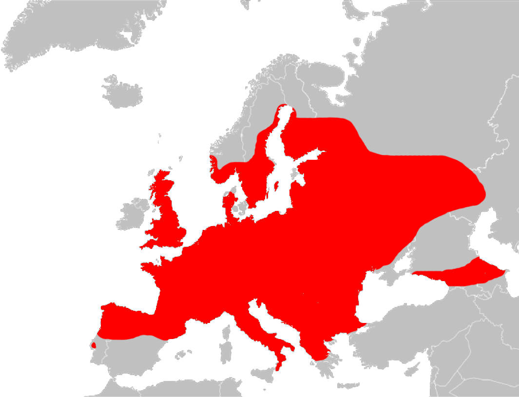 Anguis fragilis range map.